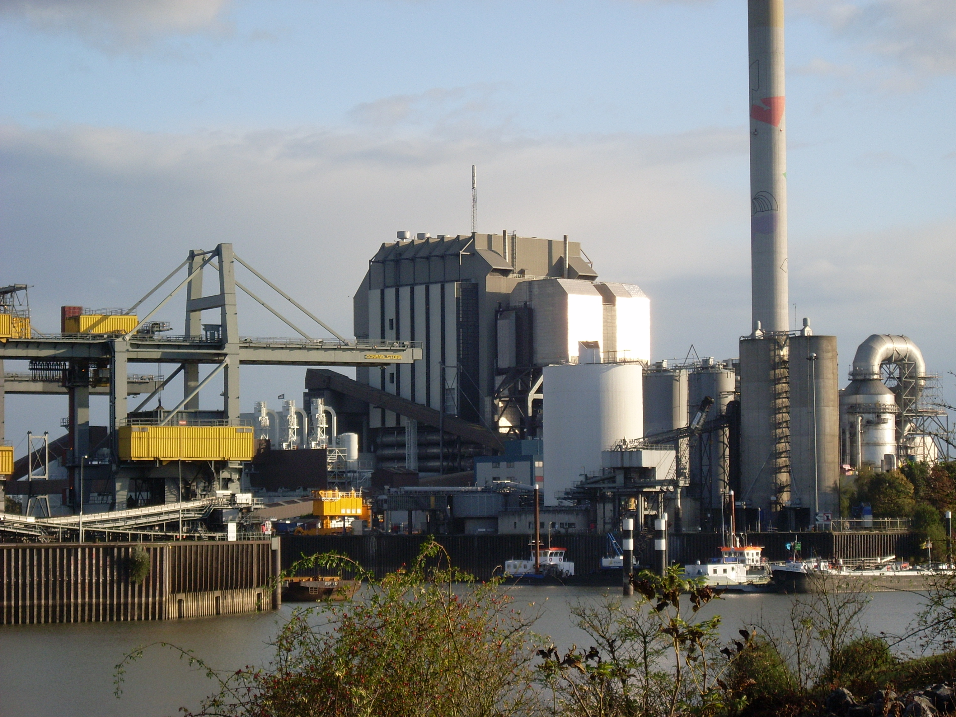 Gelderland power plant near Nijmegen